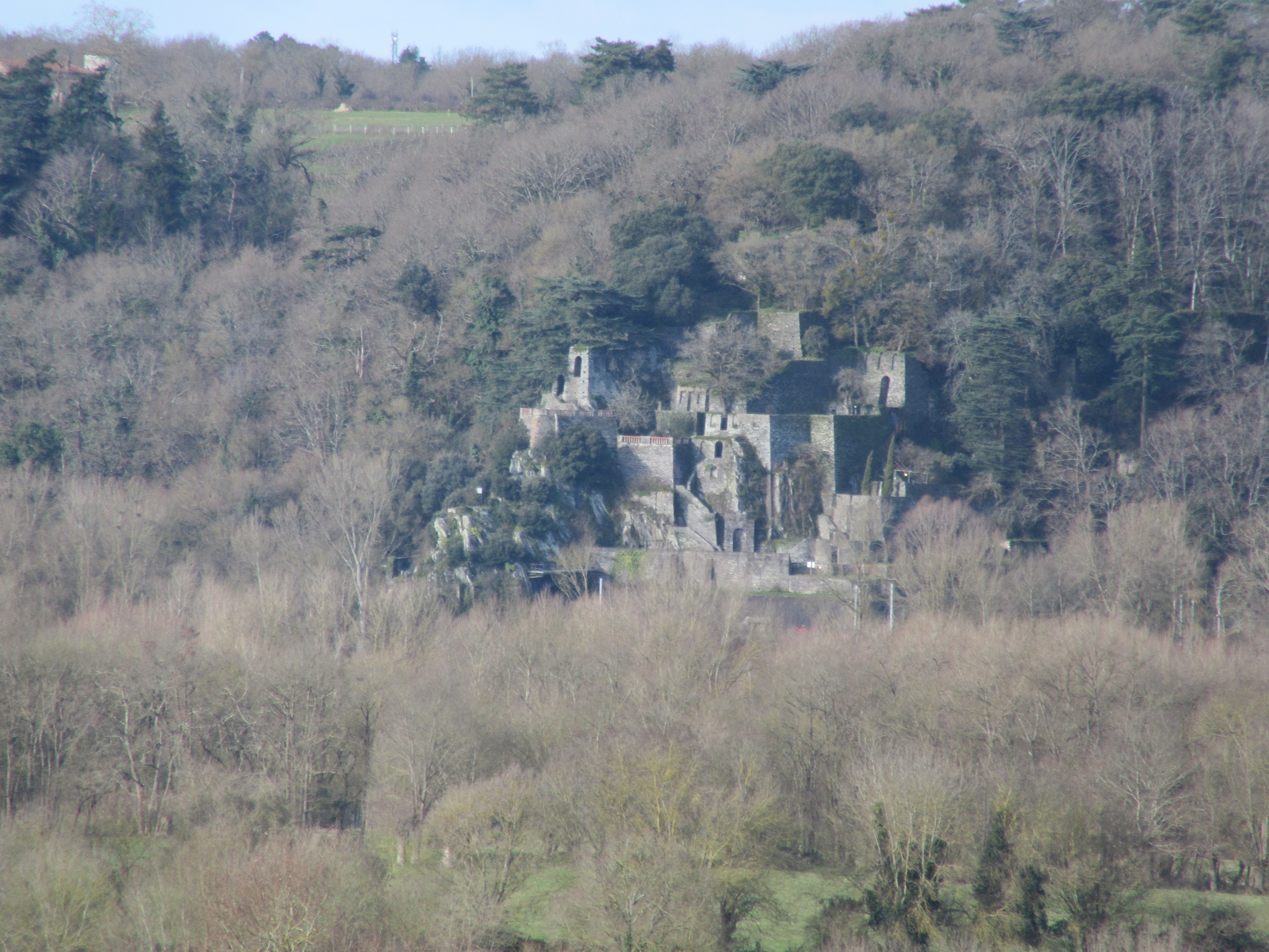 Folies Siffait vues du lieu-dit la Coindassière